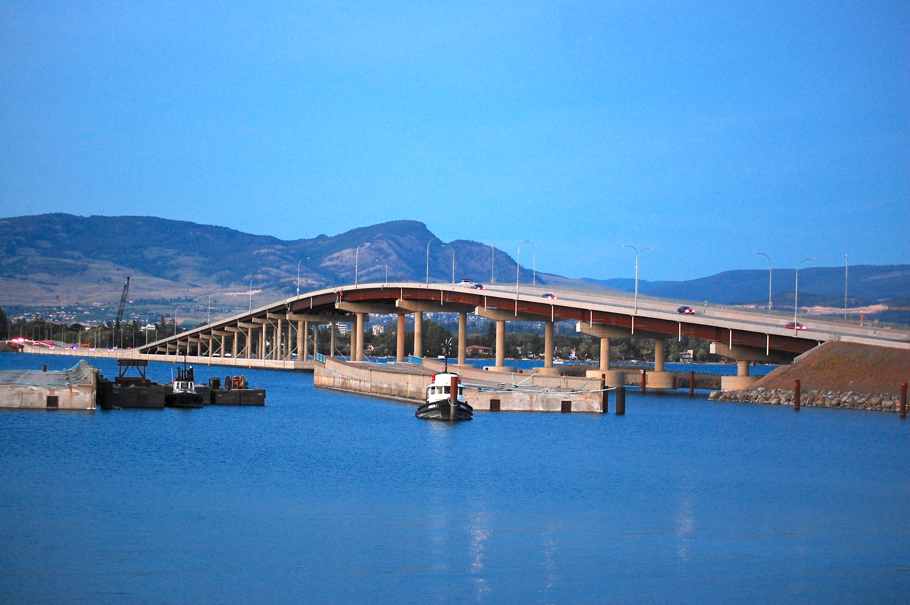 The following is the author's description of the photograph quoted directly from the photograph's Flickr page. "Note the sections of old bridge in the foreground "